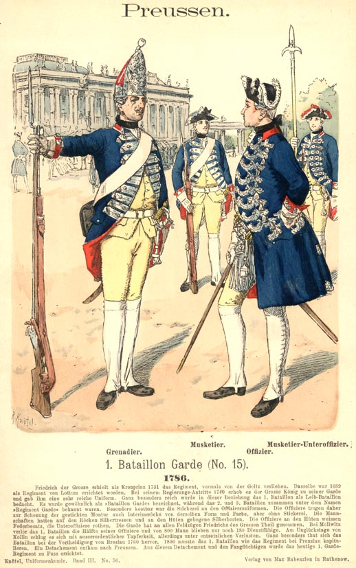 Preußen: 1.Bataillon Garde (No.15). Grenadier. Musketier. Offizier. Musketier-Unteroffizier. 1786